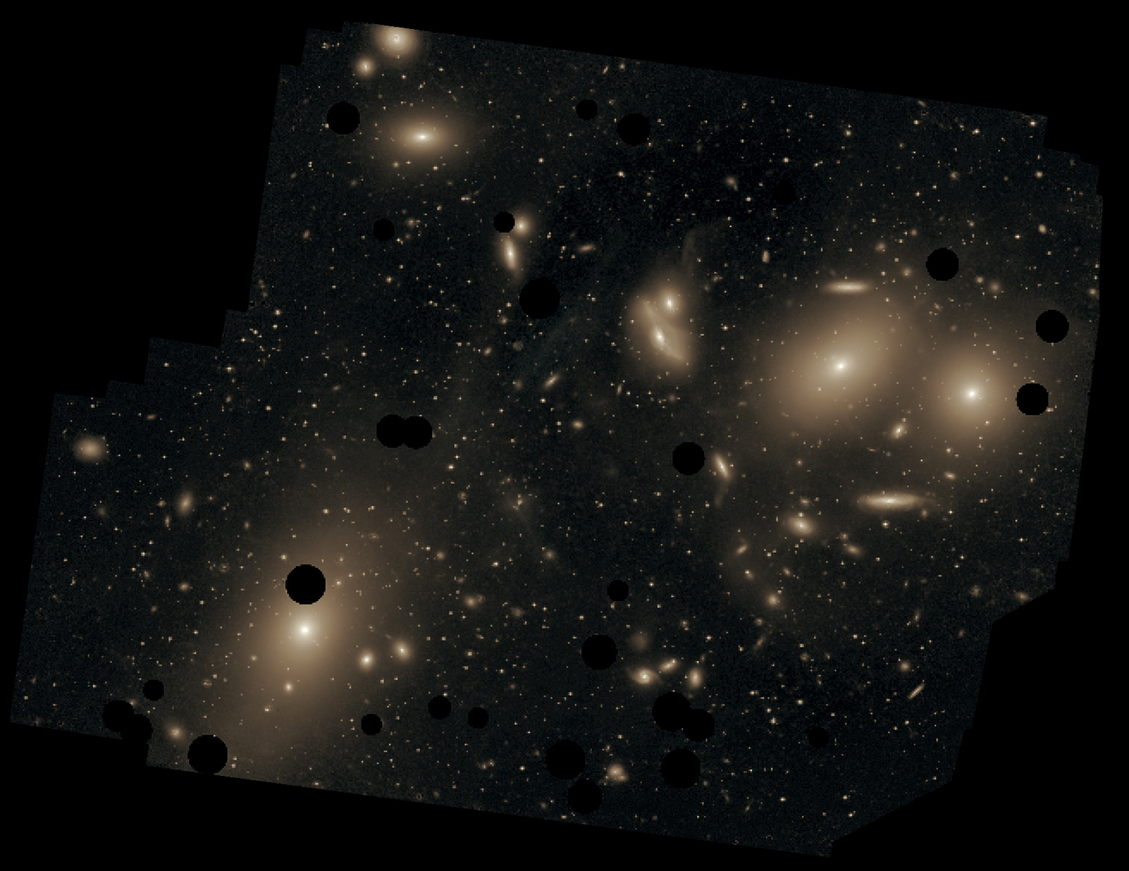 This deep image of the Virgo Cluster obtained by Chris Mihos and his colleagues using the Burrell Schmidt telescope shows the diffuse light between the galaxies belonging to the cluster. North is up, east to the left. The dark spots indicate where bright foreground stars were removed from the image. Messier 87 is the largest galaxy in the picture (lower left).